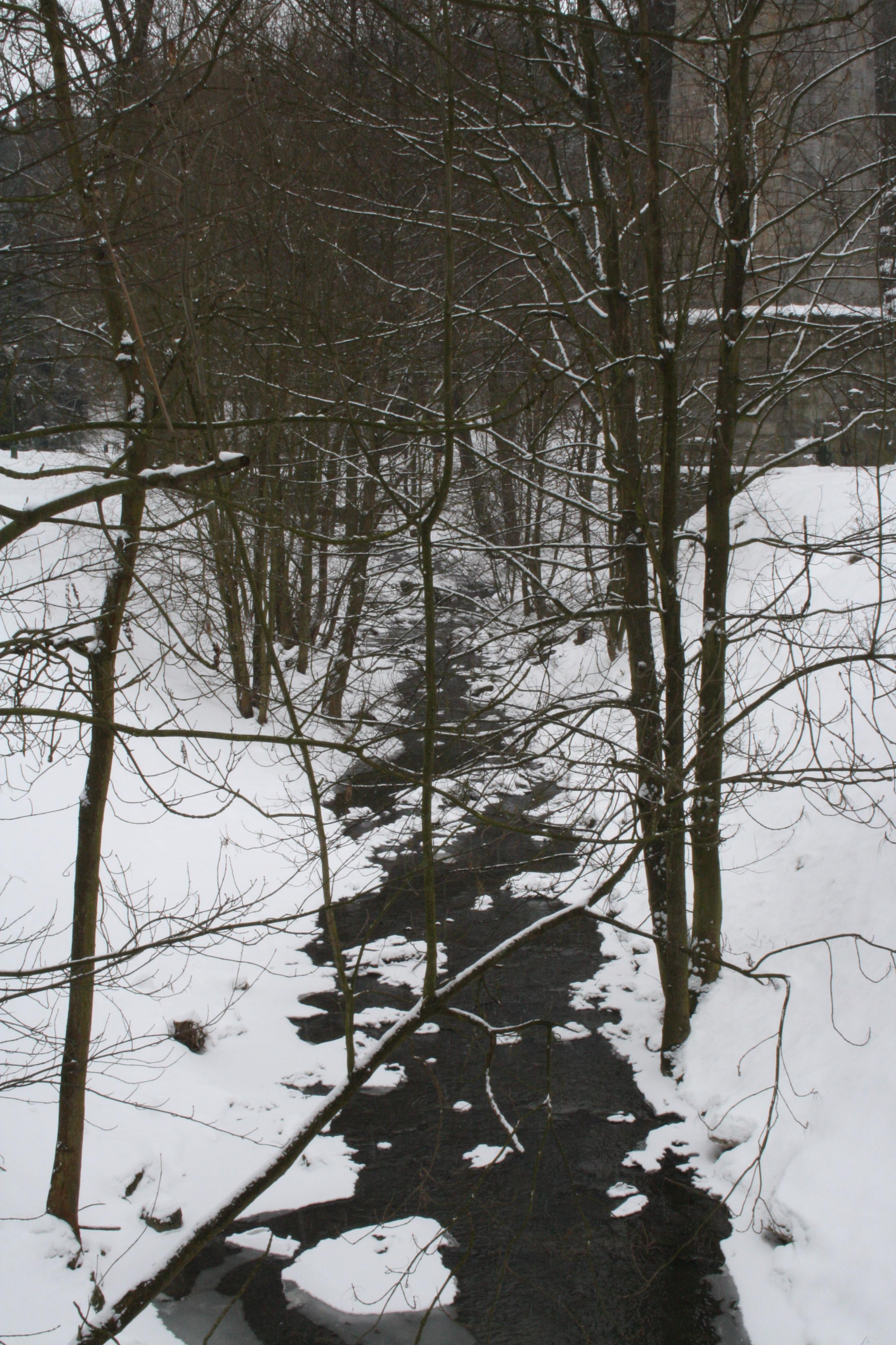 Stařeč stream in Třebíč, Czech Republic in winter.